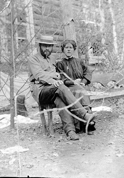 Grigori Gershuni y Mariya Spiridónova en Akatuy en 1906.